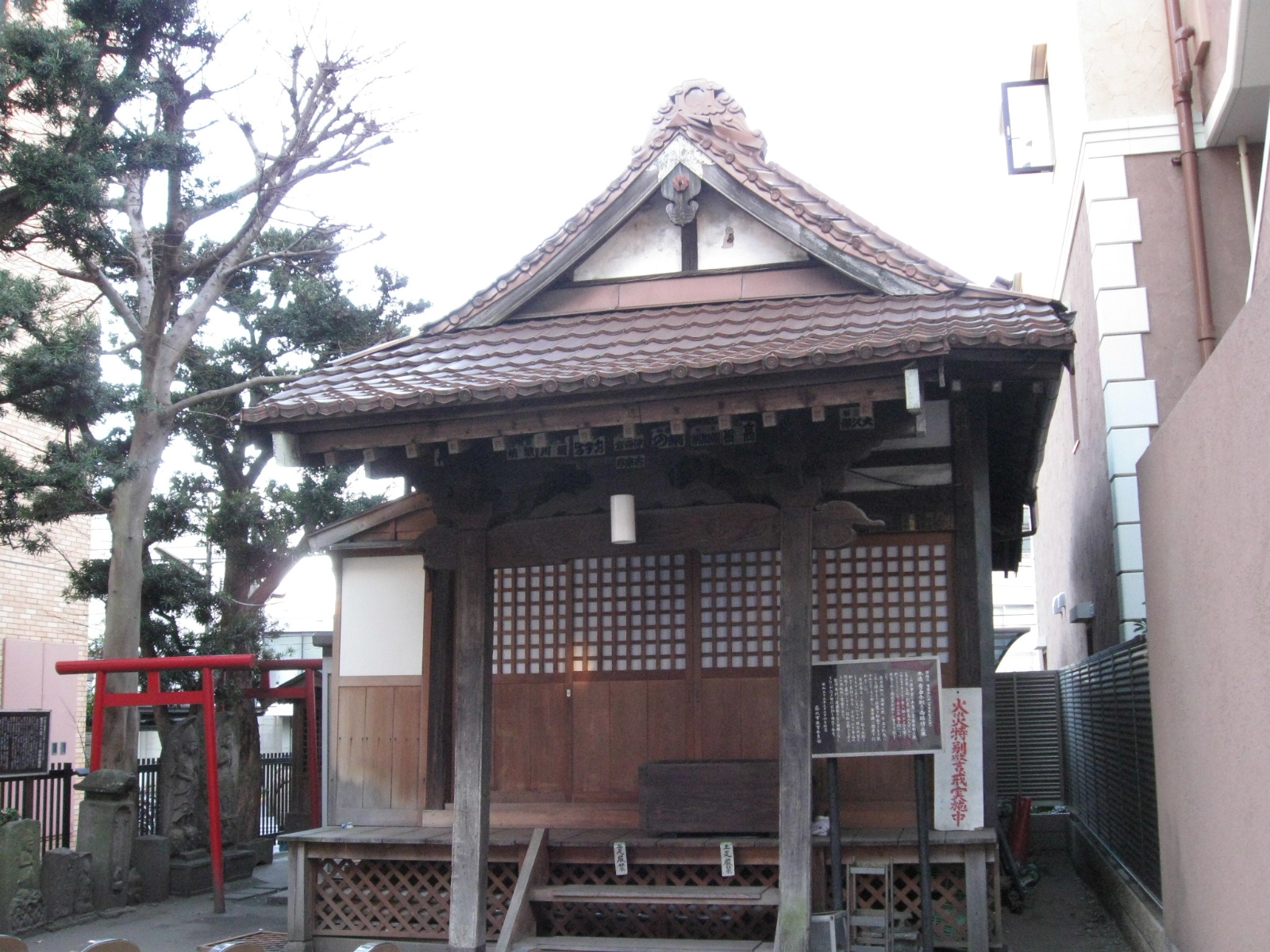 Kōshin-dō in Fujisawa City, Kanagawa Prefecture, Japan